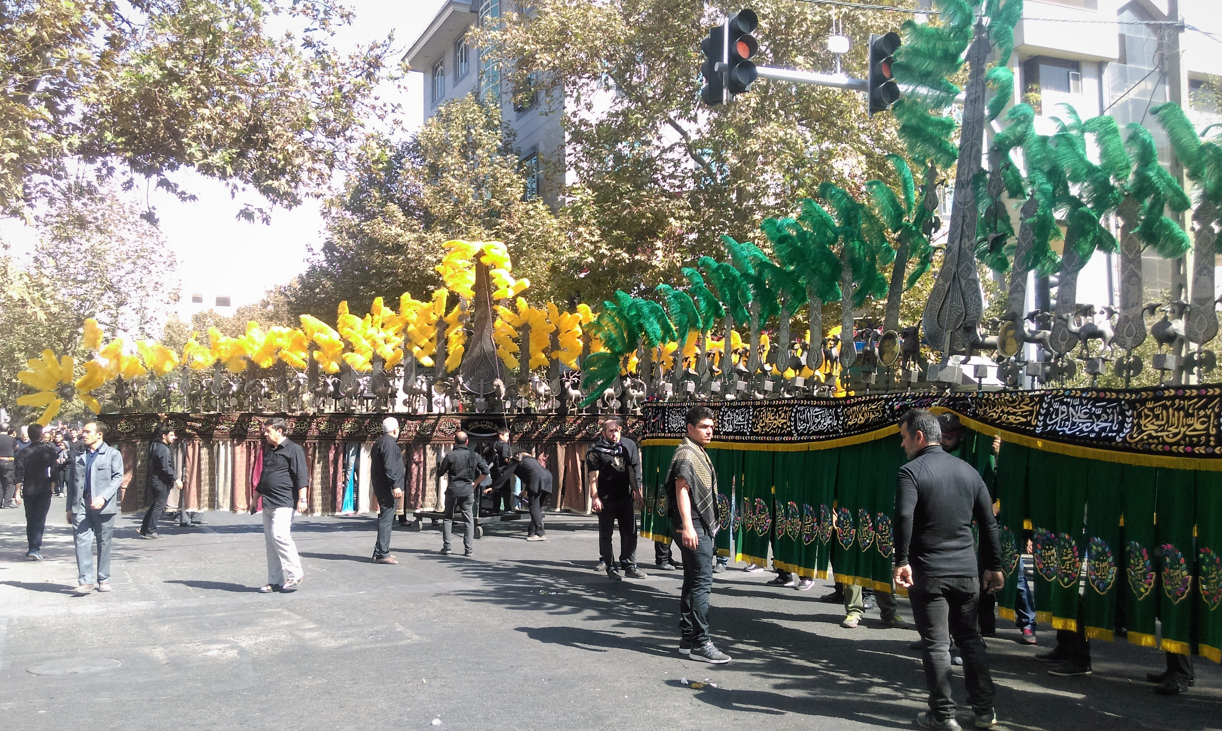 Moharram commemoration in Tehran, Iran.